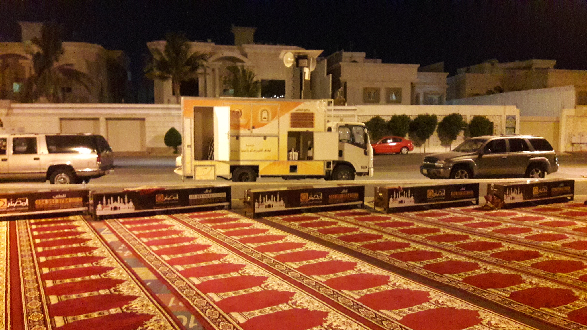 Mobile Mosque